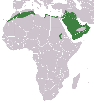 Desert Hedgehog (Paraechinus aethiopicus) range with national borders added